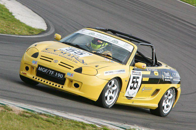 Ash Shuttlewood driving the TGR Motorsport MG TF 190 in 2009 at Angelsea race Circuit UK